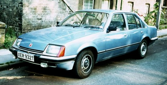 Vauxhall Carlton